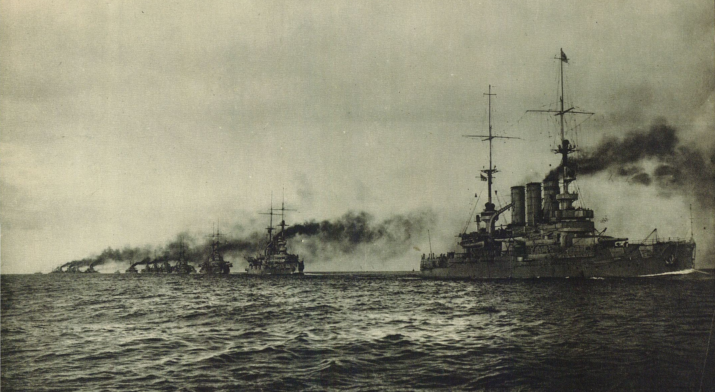 Photo of the German High Seas Fleet, probably before World War I. A member of the leads the line.